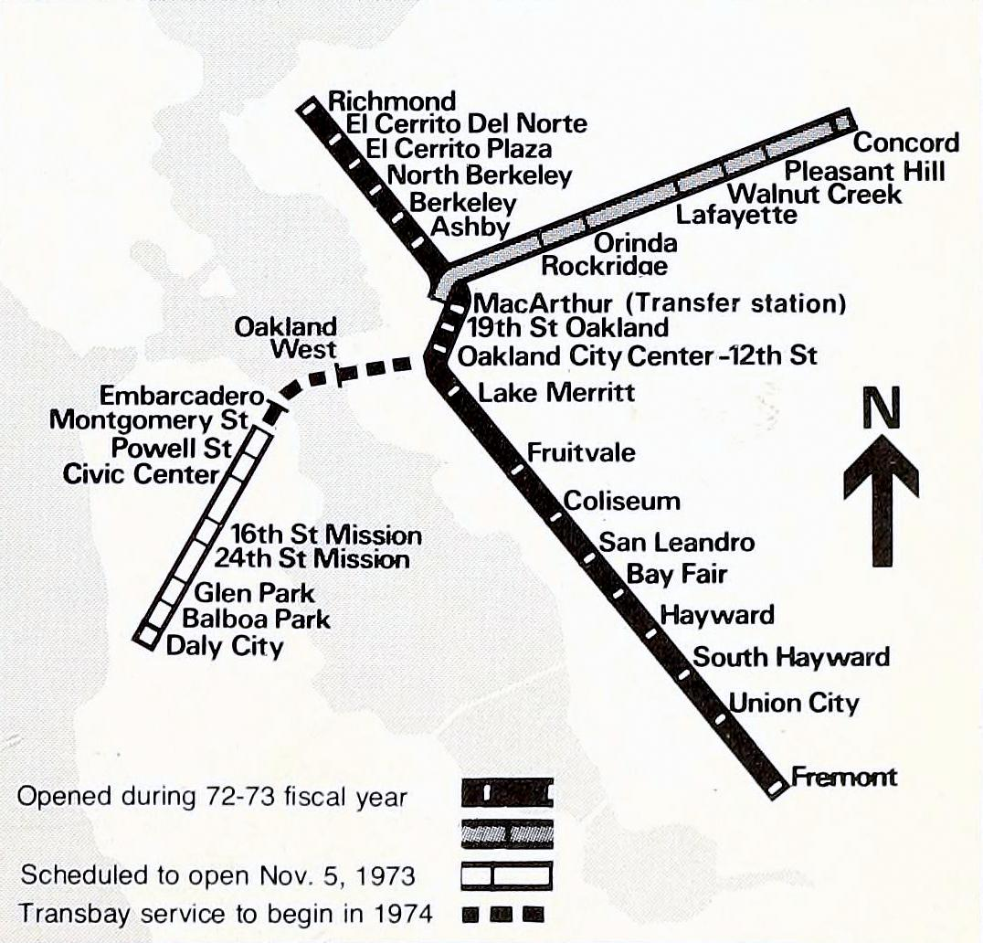 BART route diagram accurate to the November 5, 1973 opening of the San Francisco segment